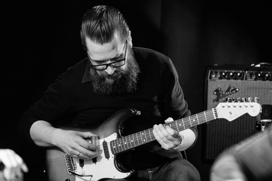 Helge Sten in a concert with Joshua Abrams in Energimølla. The concert was part of Kongsberg Jazzfestival and took place on 04. July 2019 in Kongsberg. Lineup:Joshua Abrams (sintir)Lisa Alvarado (harmonium)Jason Stein (clarinet)Mikel Avery (drums)Helge Sten (guitar)Hamid Drake (percussion)